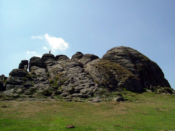 Hay Tor, Dartmoor, Devon. Early afternoon 15 July 2005 (or a few days before).